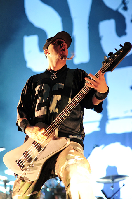 Soundwave Festival 2012